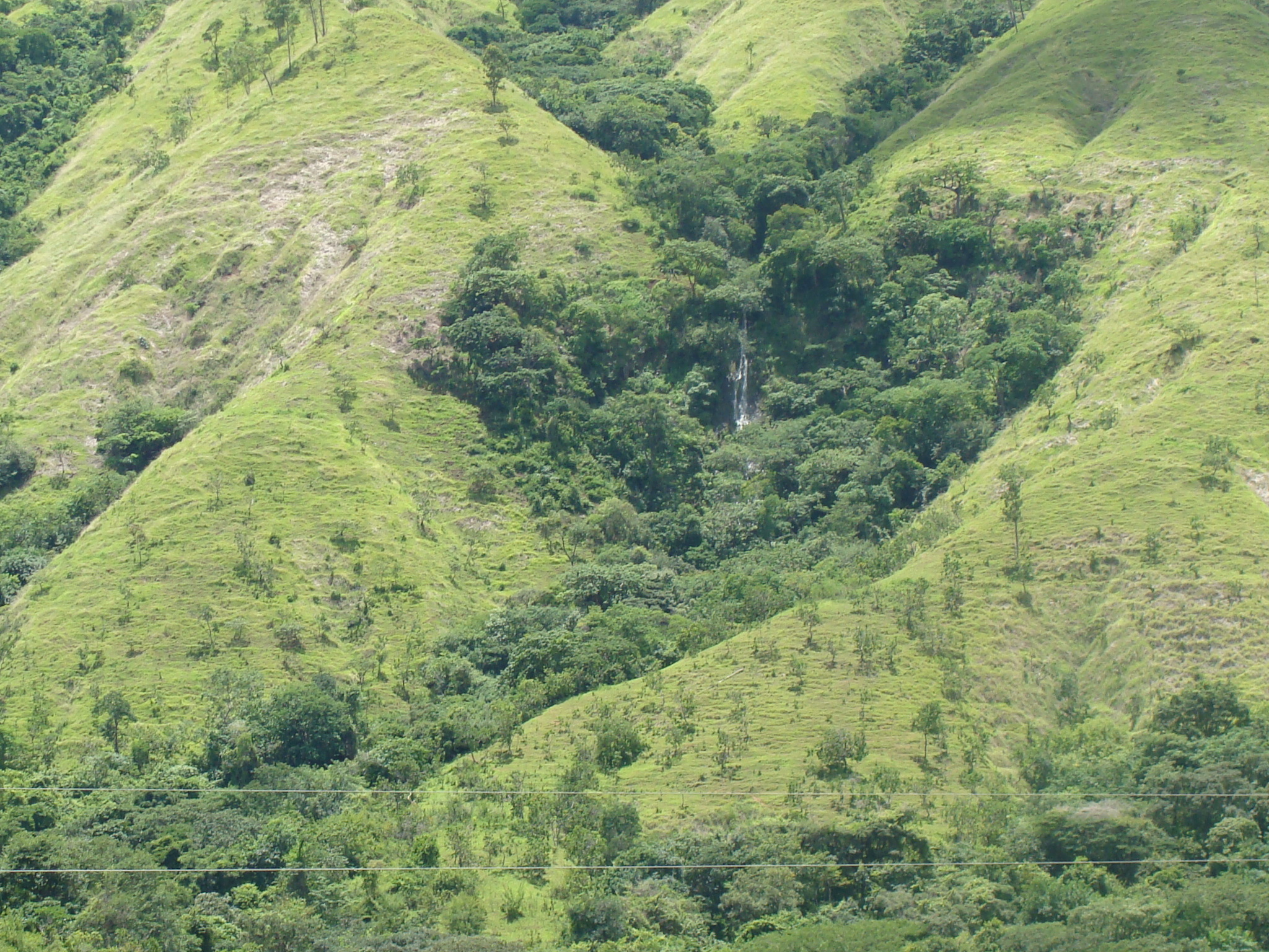 Small ravine near San Juan de los Morros (Venezuela)